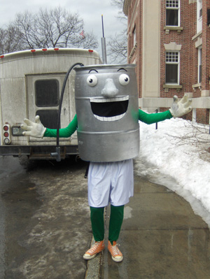 Keggy the Keg, Dartmouth College's unofficial mascot, in his new 2009 incarnation.